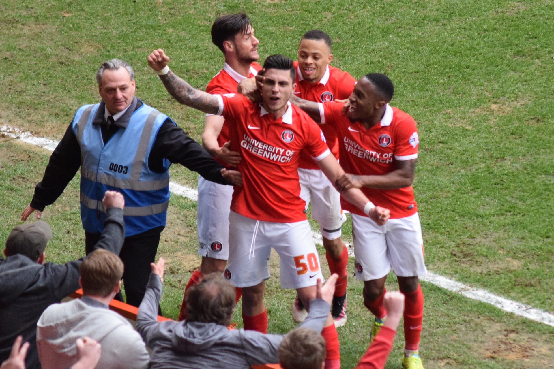 Jorge Teixeira celebrates his last minute winner against Birmingham City, 2016